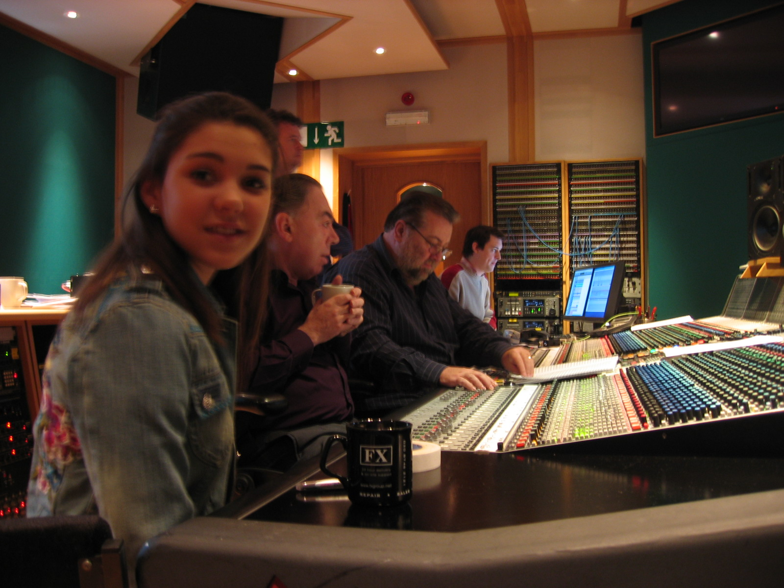 Andrea Ross with Andrew Lloyd Webber and Nigel Wright in the studio recording her debut CD "Moon River"